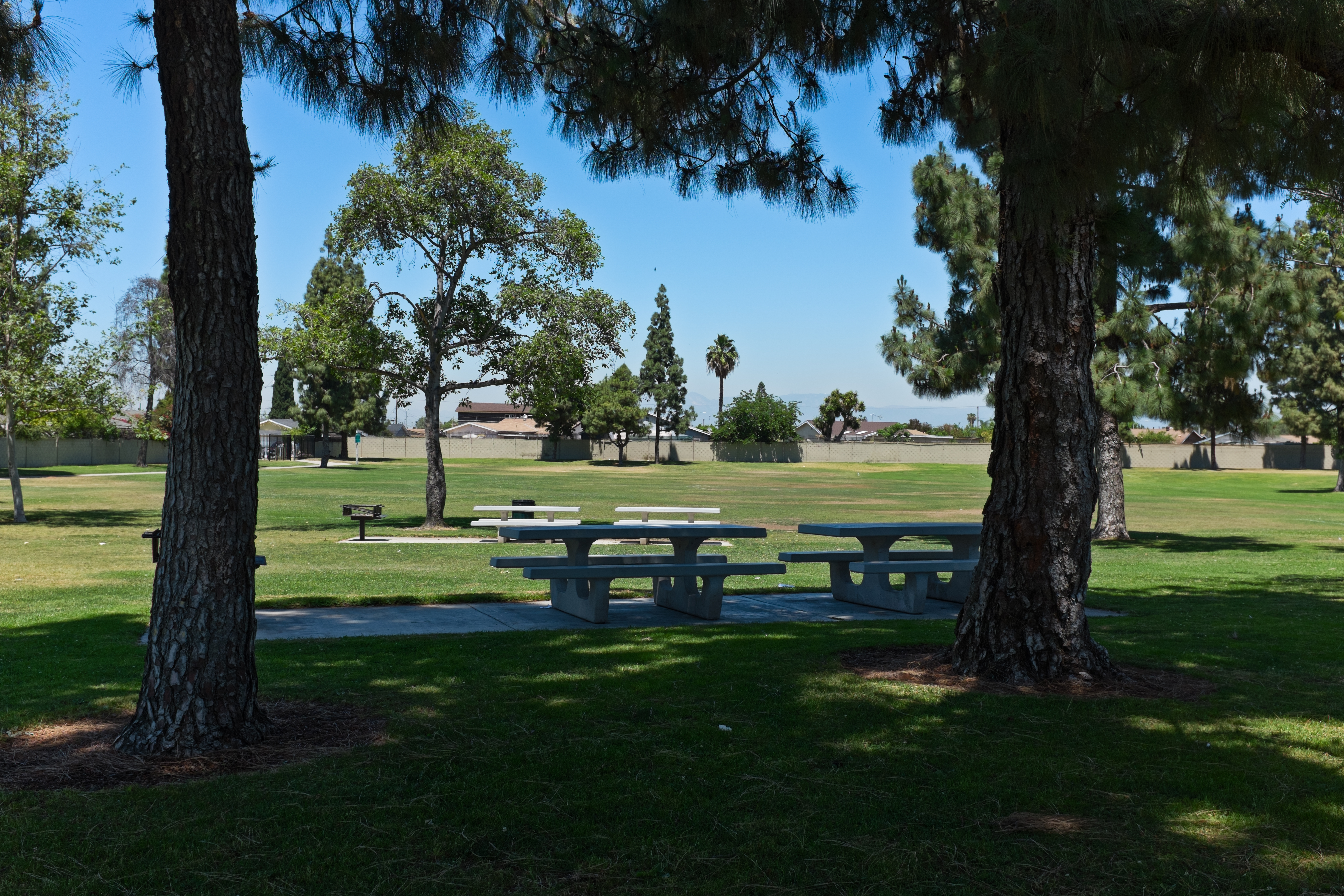 View of Hermosillo park, behind the Arturo Sanchez memorial hall. Norwalk, CA.